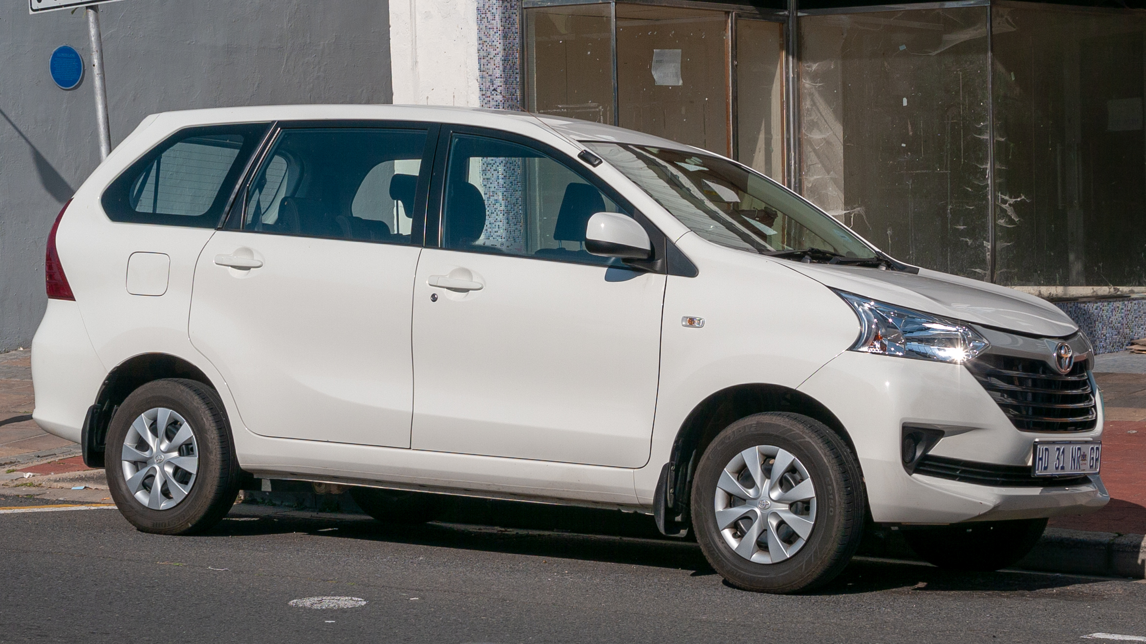 2nd generation Toyota Avanza, Cape Town